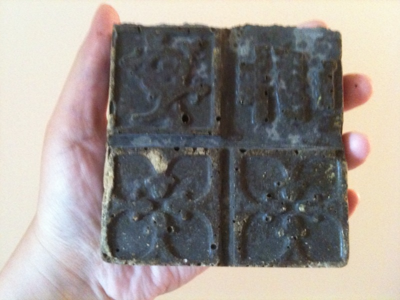 Squares of henna sold for use in colouring hair